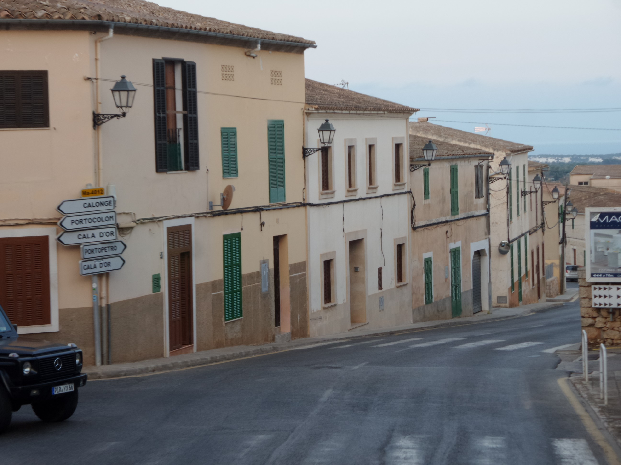 S’Alqueria Blanca